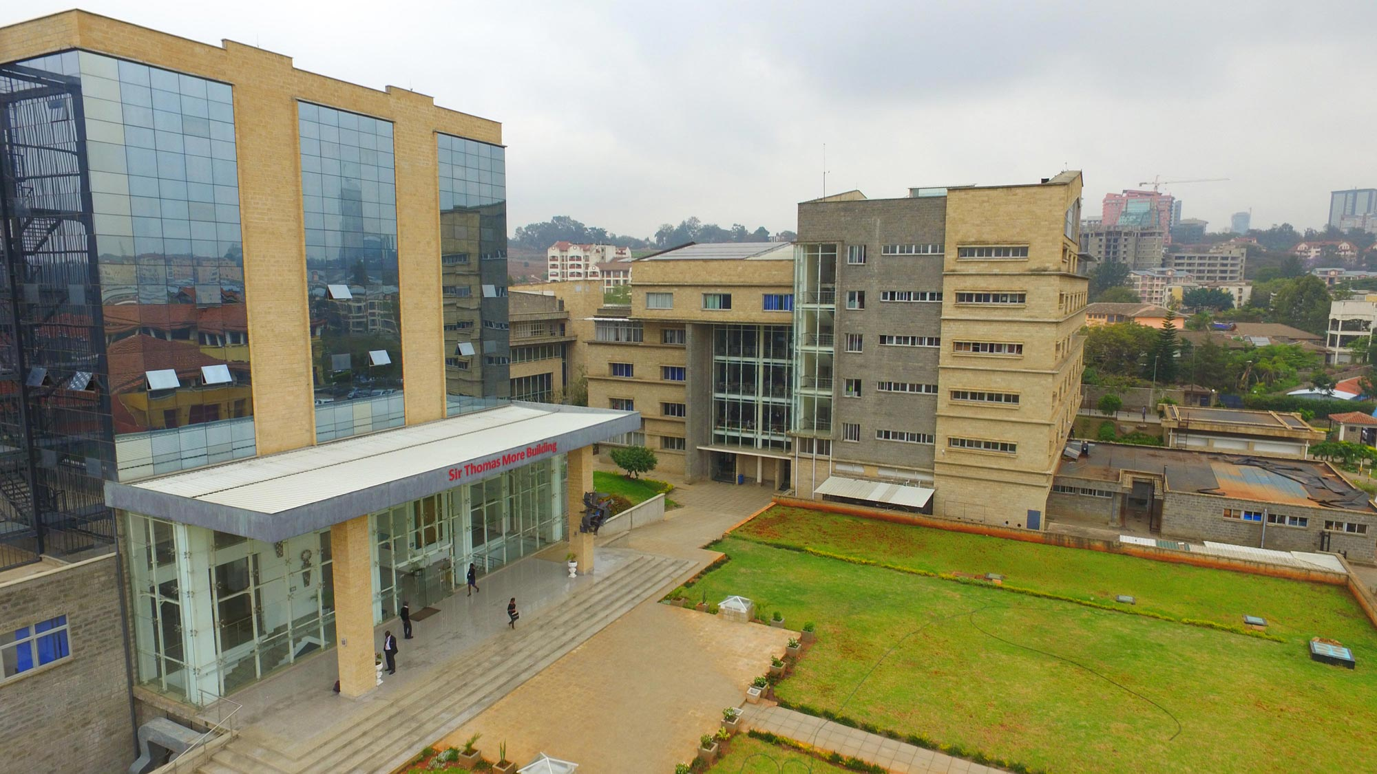 An aerial view of Strathmore University Keri campus that is home to the student centre and Sir Thomas Moore building